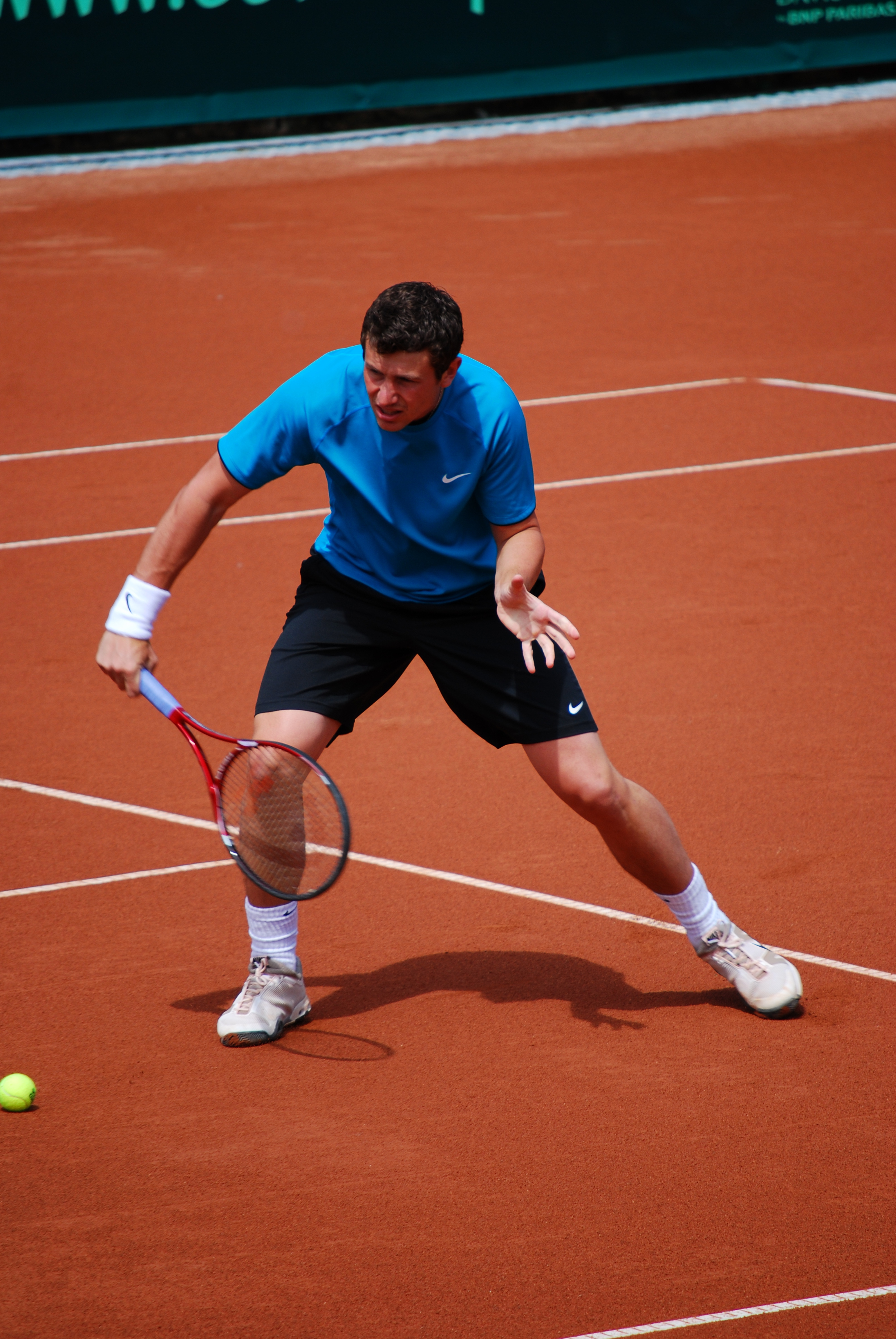 Ukrainian tennis player Sergiy Bubka, during a Davis Cup doubles match against Romania played in Bucharest